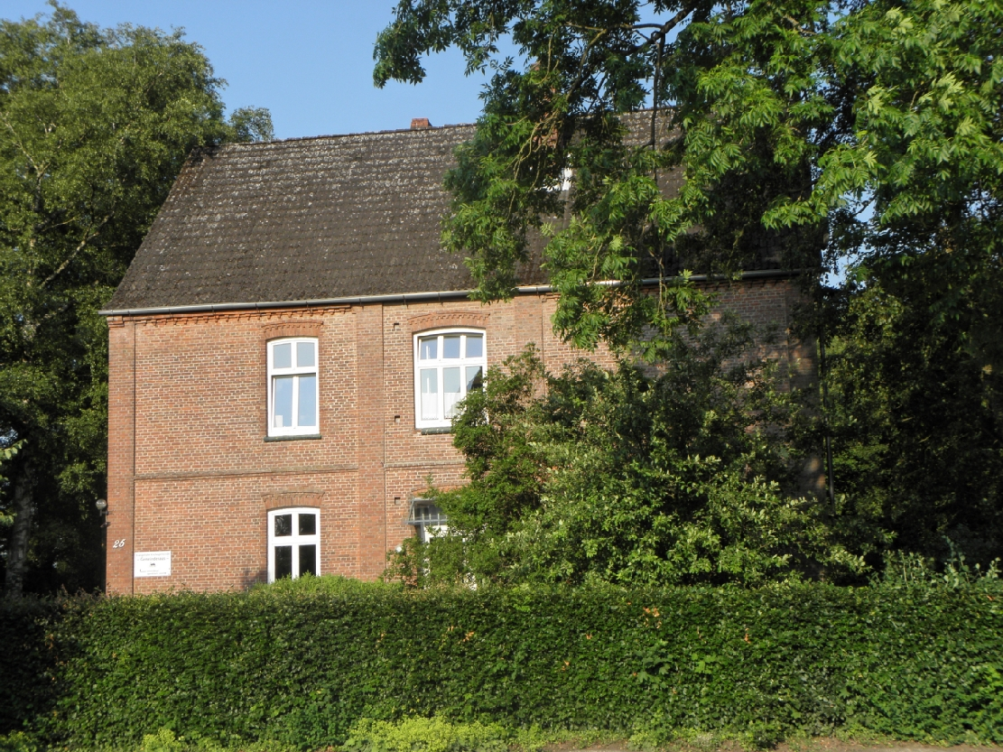 Pictures